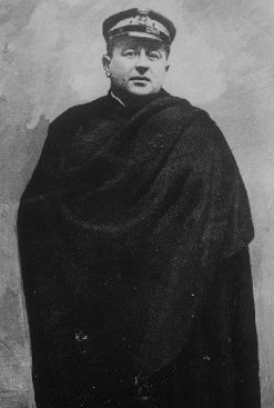 Nazario Sauro (1880-1916) in uniform of an officer of the Royal Navy